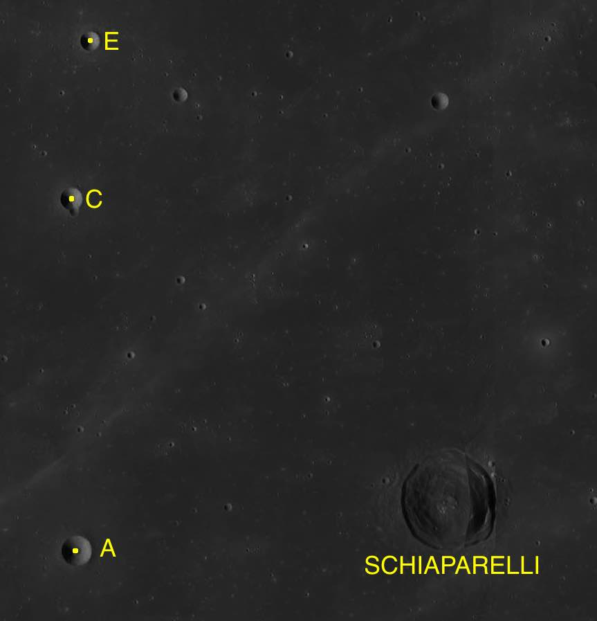 Part of the chart LAC-38 used for the presentation.